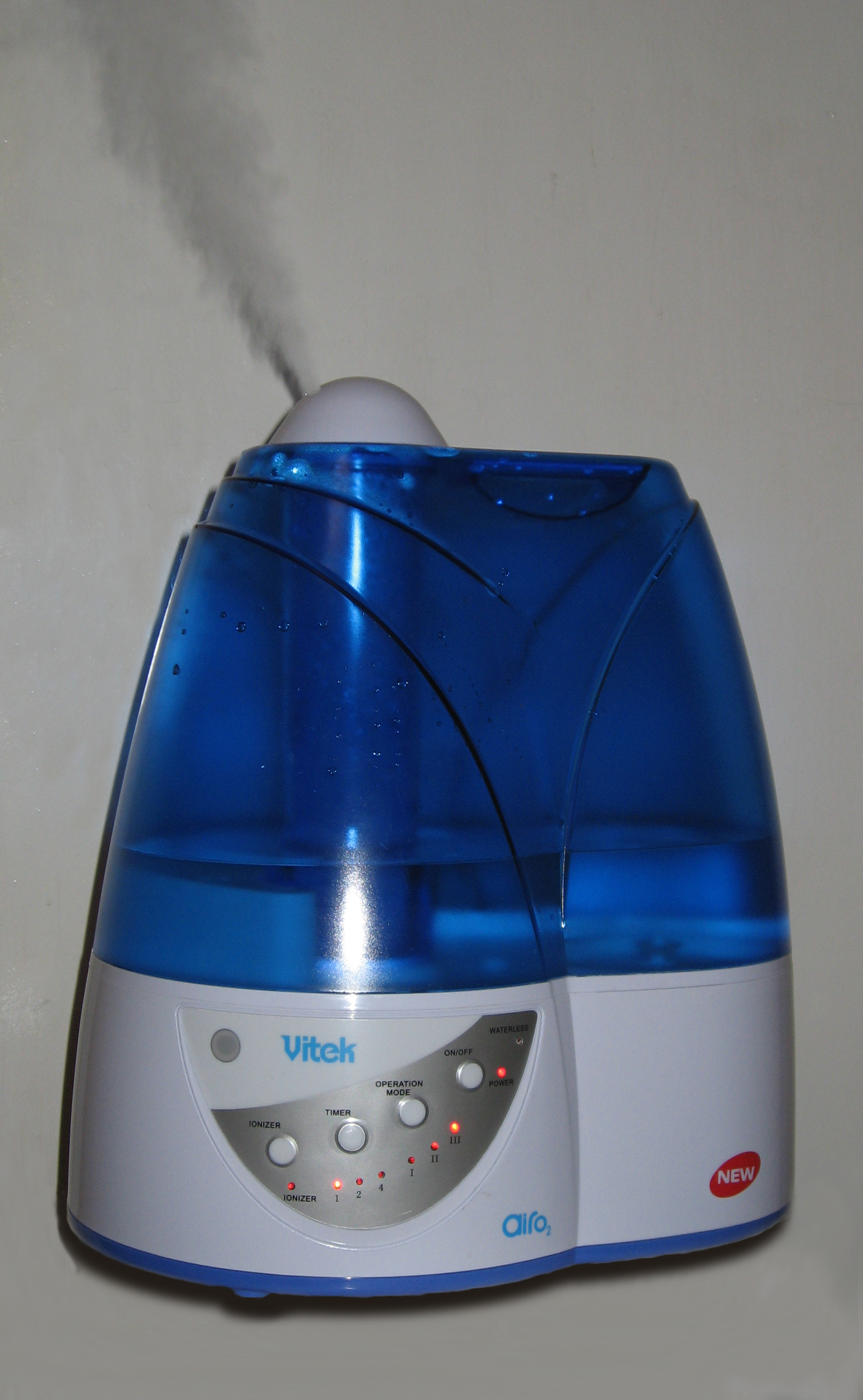 Vitek ultrasonic humidifier